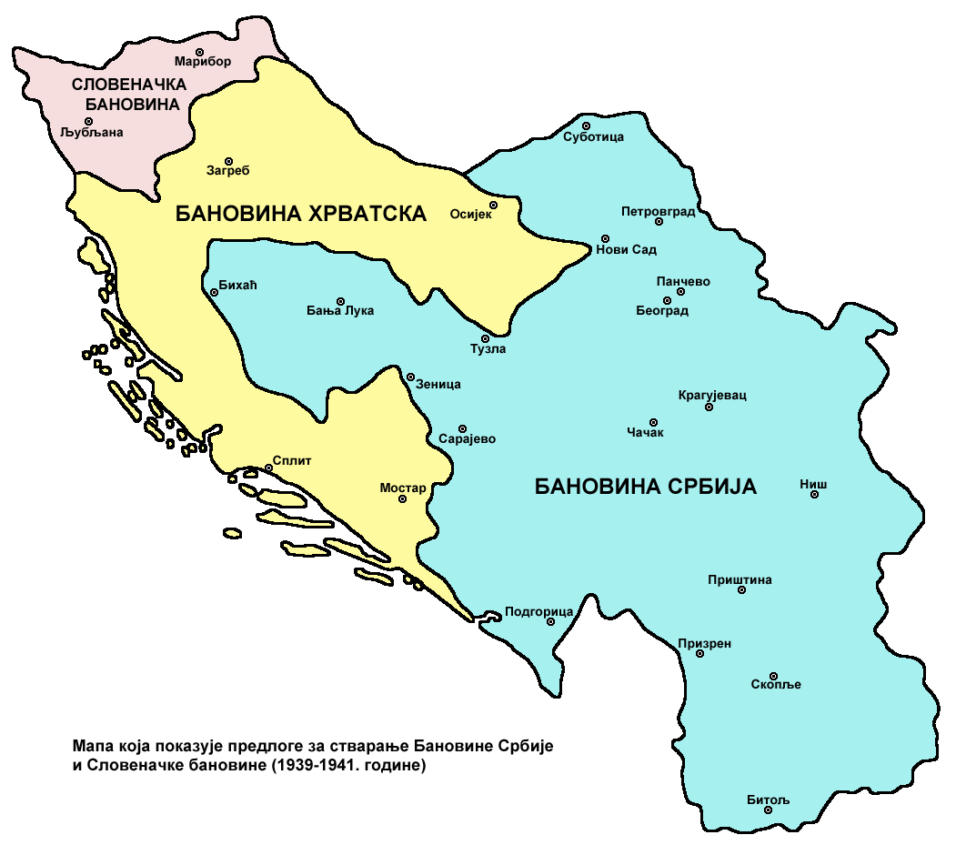 Map showing the proposals for creation of Banovina of Serbia and Slovene Banovina (in 1939-1941).